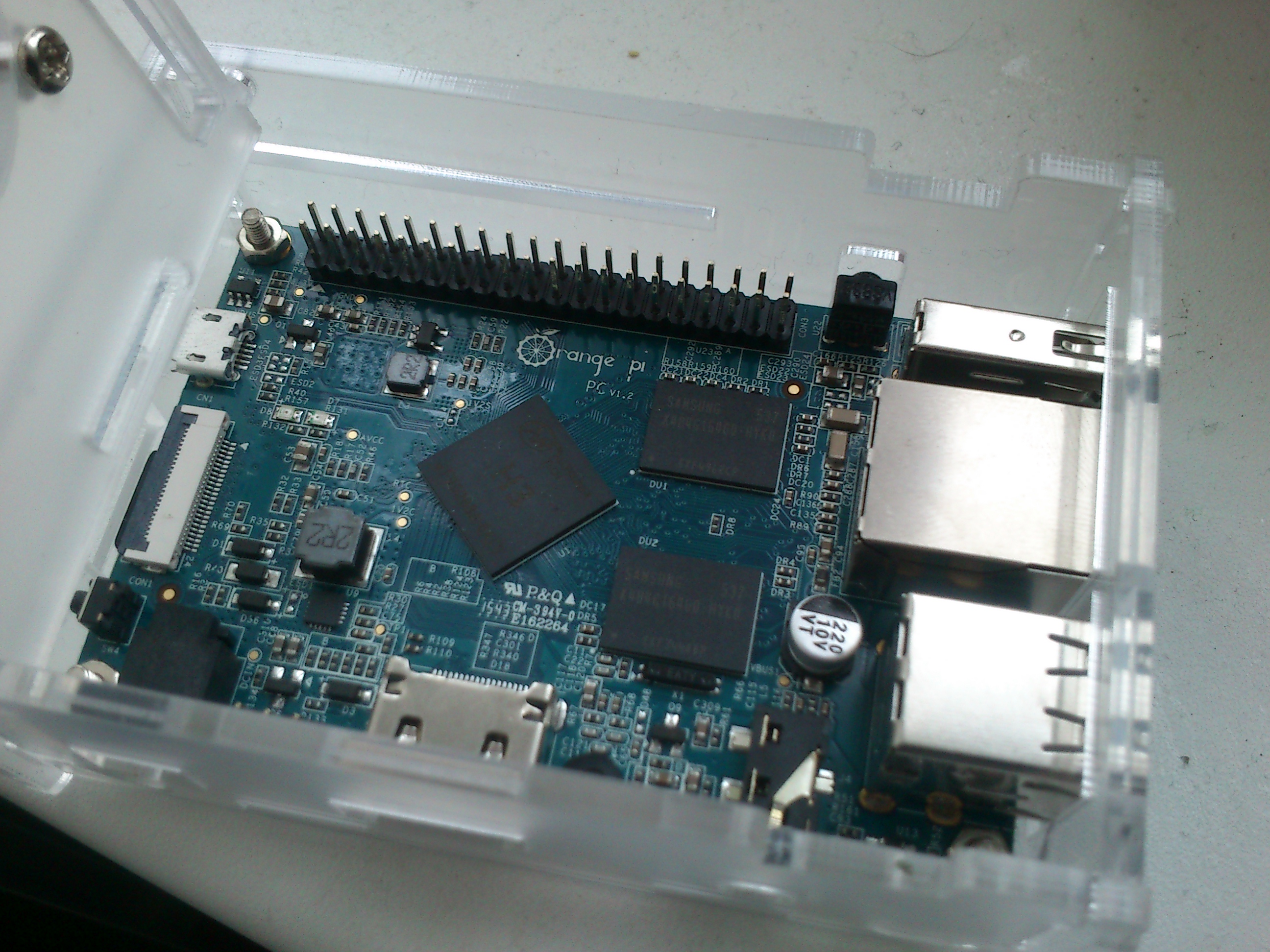 Banana Pi PC